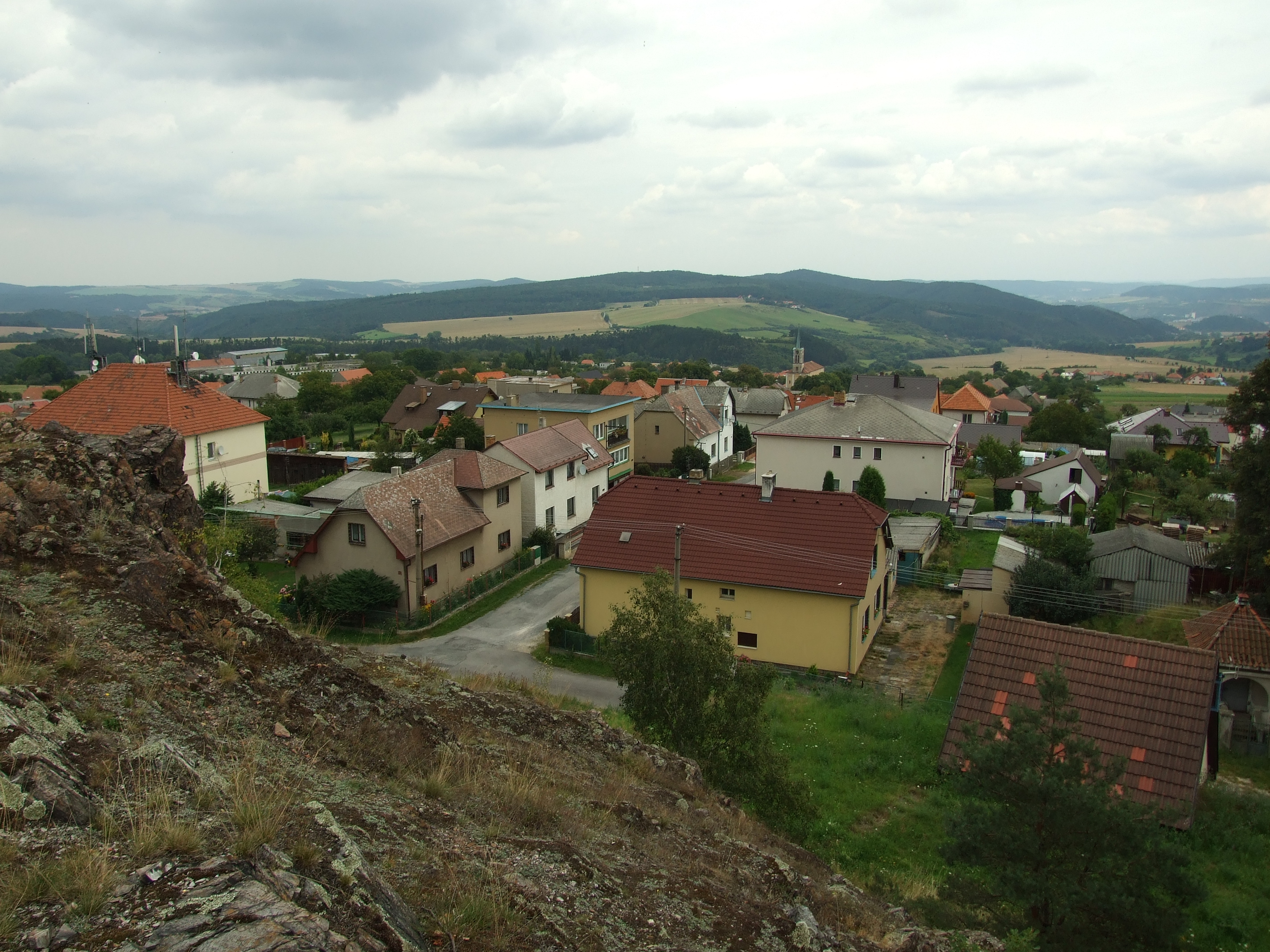 village Hudlice in Central Bohemian Region, Czech Republic.